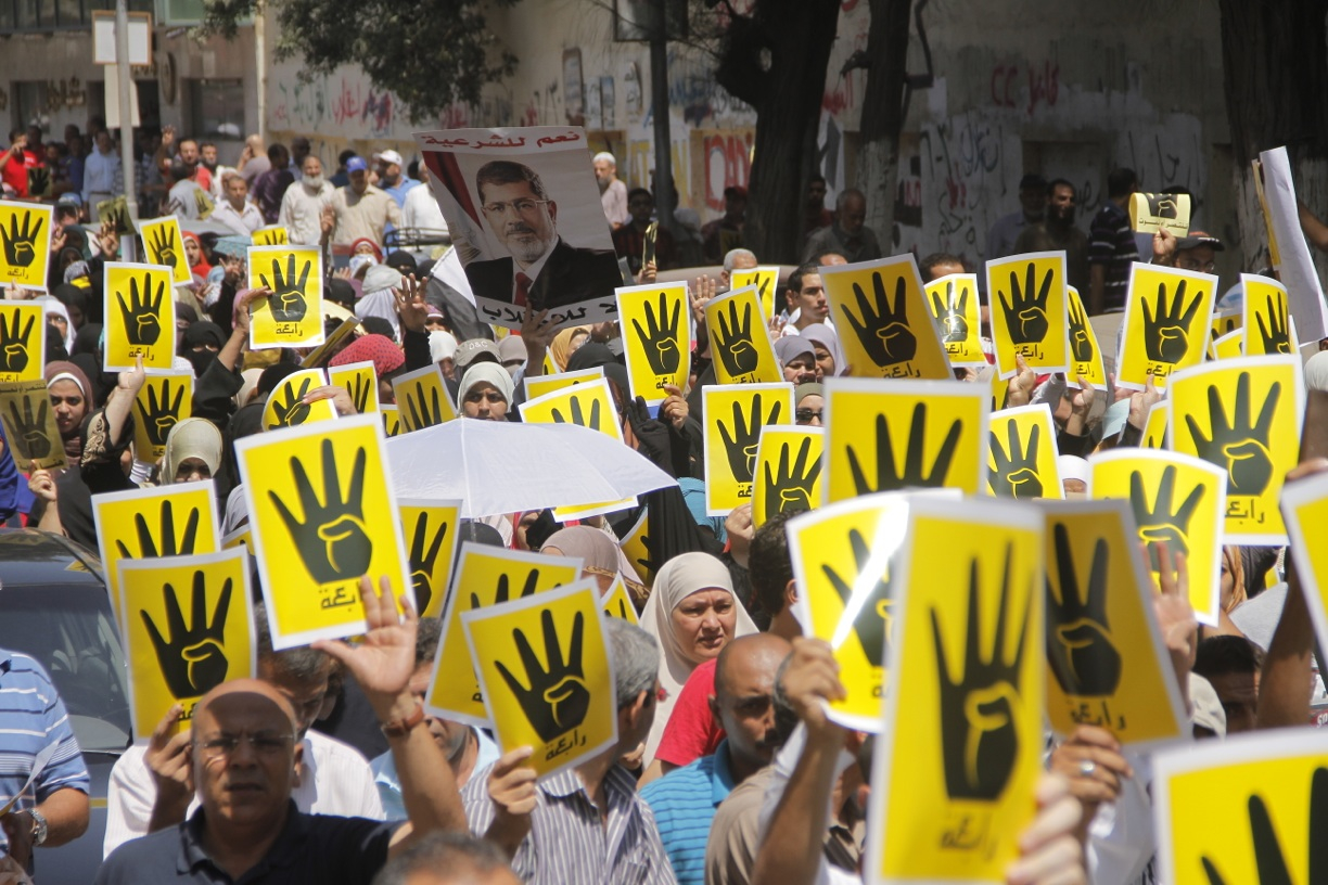 Original description: "Demonstrators hold up four fingers, a symbol of their solidarity with the the destroyed sit-in protest known as Rabaa, which means four or fourth in Arabic, Cairo, August 23, 2013. (H. Elrasam for VOA)"